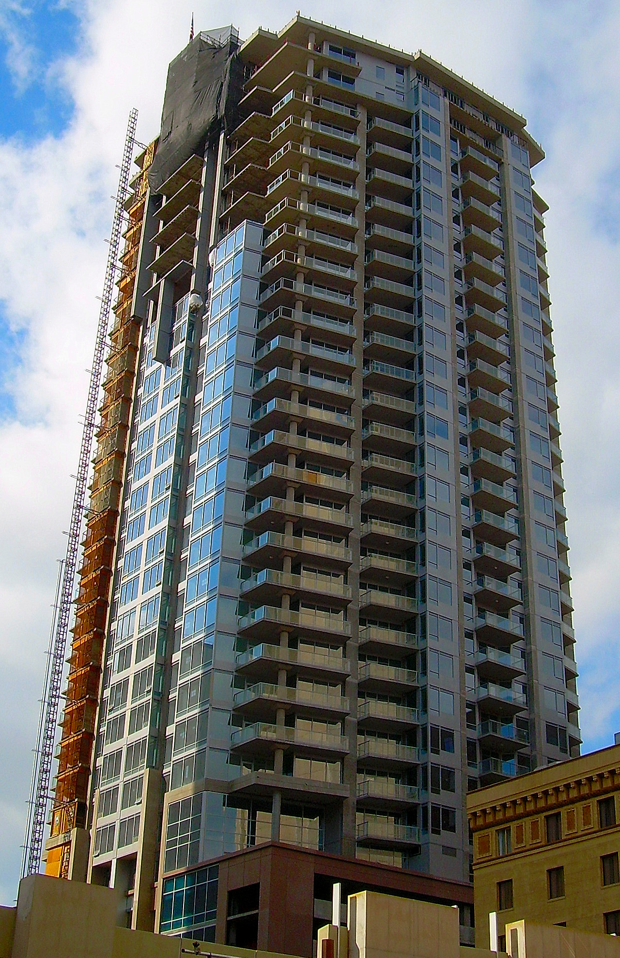 JCordova, self